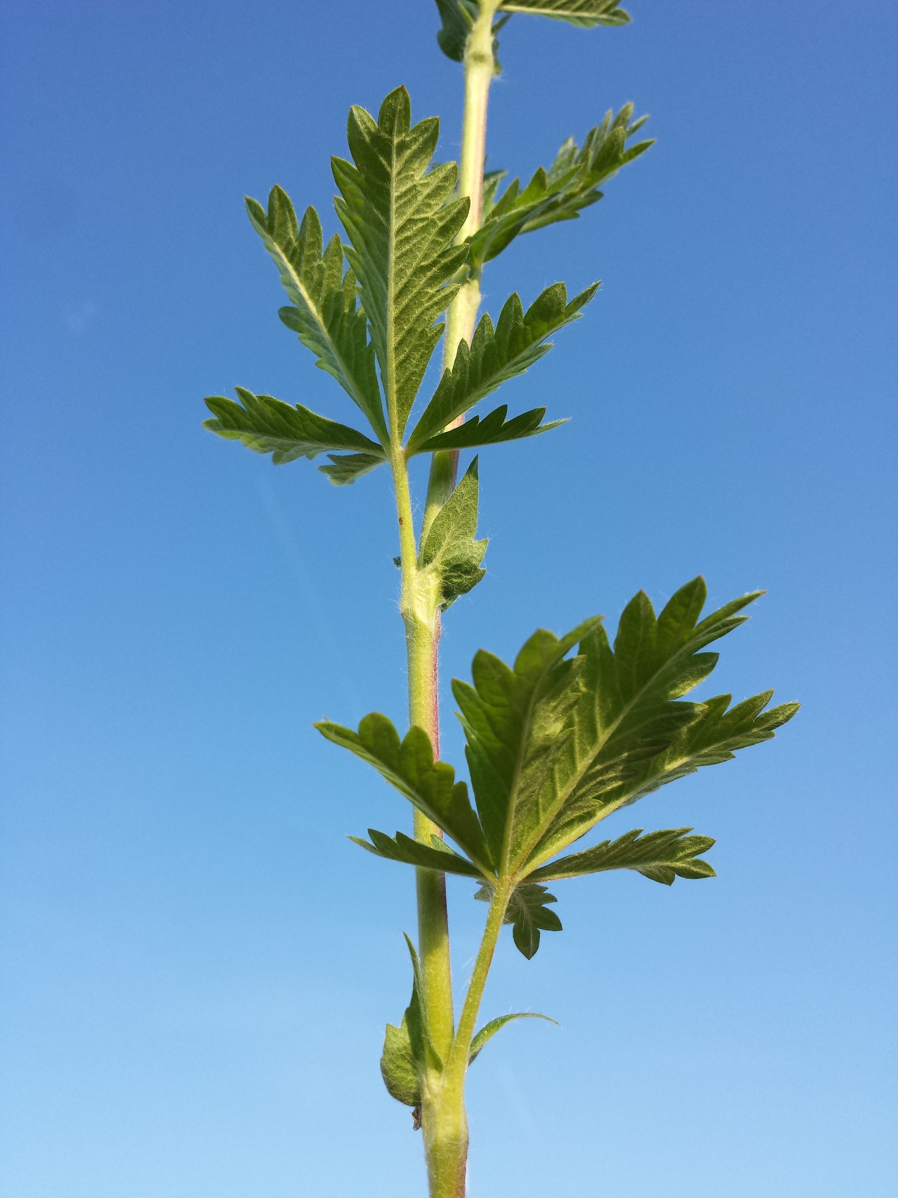 Stem with leaves Taxonym: Potentilla inclinata ss Fischer et al. EfÖLS 2008 ISBN 978-3-85474-187-9 Location: Floridsdorf rail station, Vienna-Floridsdorf - ca. 160 m a.s.l. Habitat: sandy area